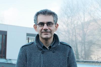 Picture of Ilijas Farah